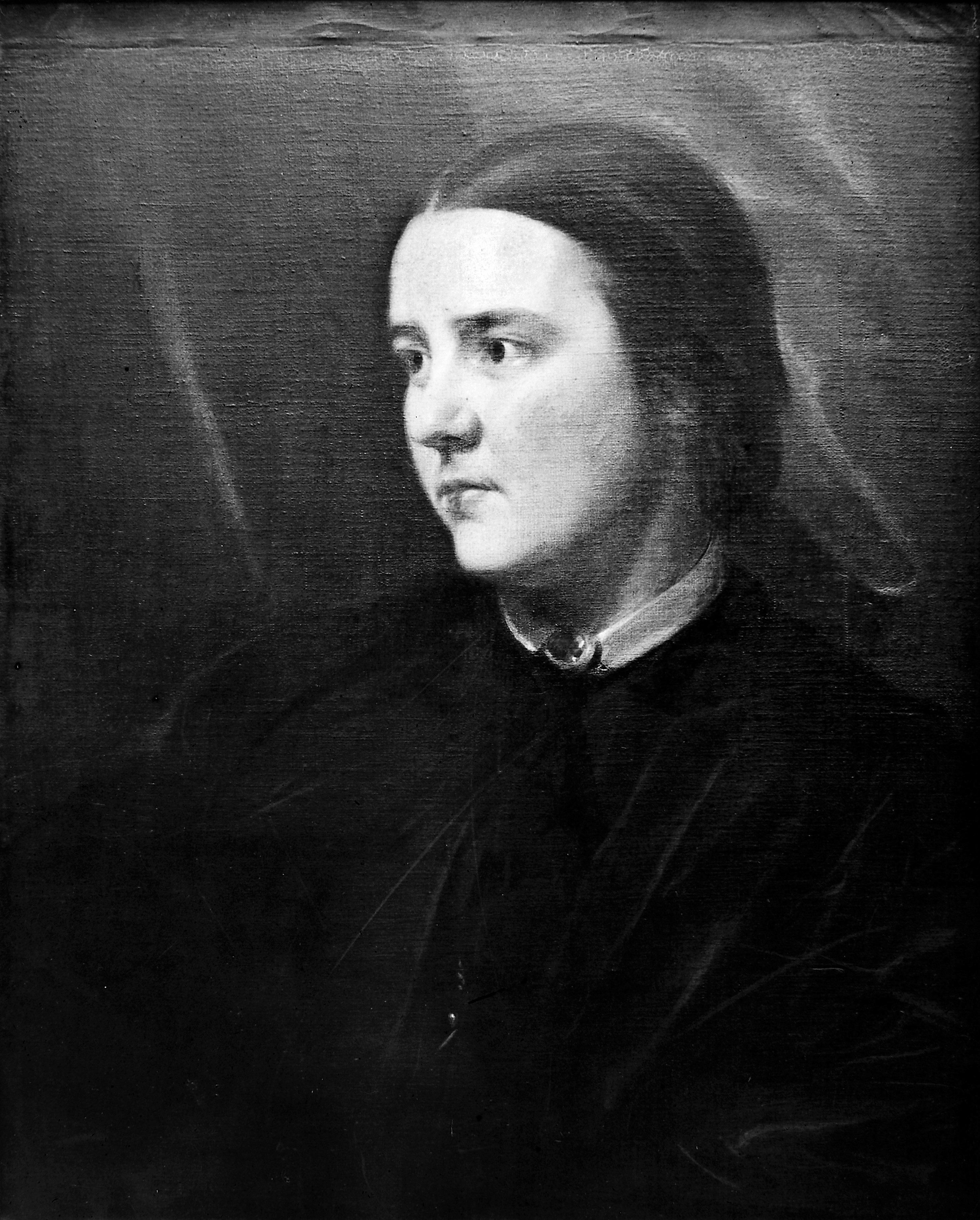 Sophia Jex-Blake. Photograph by Swaine. Iconographic Collections Keywords: Sophia Jex-Blake